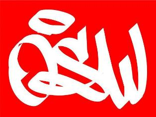 Osuma StreetWear (OSW) graffiti-style logo